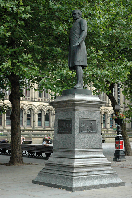 Grade II listed statue of James Fraser (1818-85), Bishop of Manchester (1870-85). (Thomas Woolner, 1888), in Albert Square, Manchester. Taken by Matt Cox on 6th July 2006.